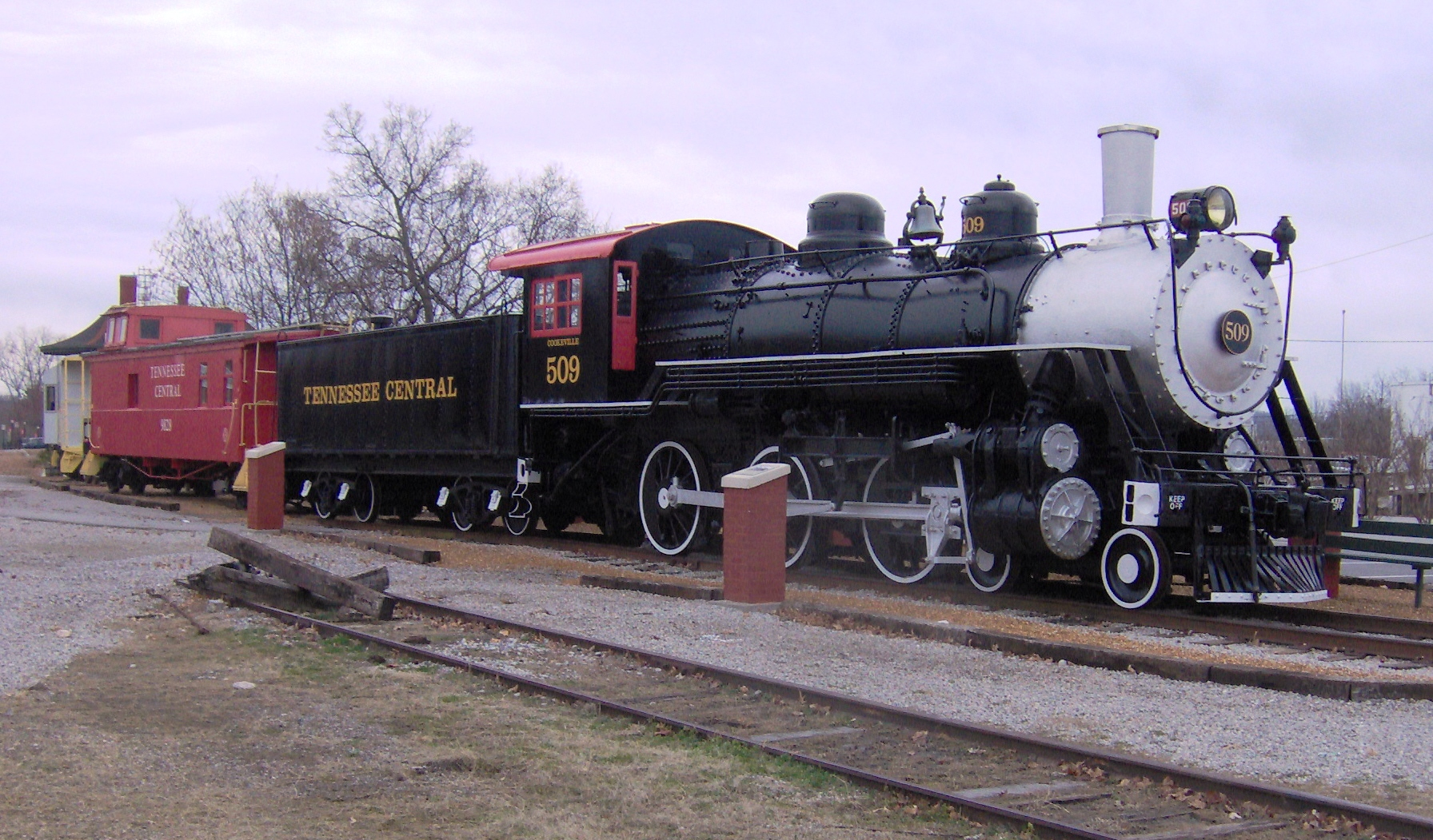 Baldwin Locomotive at the Cookeville Depot Museum in Cookeville, Tennessee, USA. The Arkansas and Louisiana Railroad purchased this engine from Baldwin Locomotive Works in 1913, and used it in its rail service until 1950. The museum acquired the engine in 2002 and reconfigured its appearance to match Tennessee Central Railroad engines of the early 20th century.